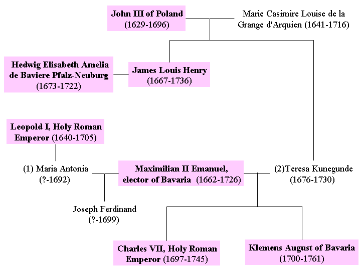 Family tree of Max II Emanuel of Bavaria v2 This family tree is the original copyright work of Anthony Cutler who has published here and release it into the public domain